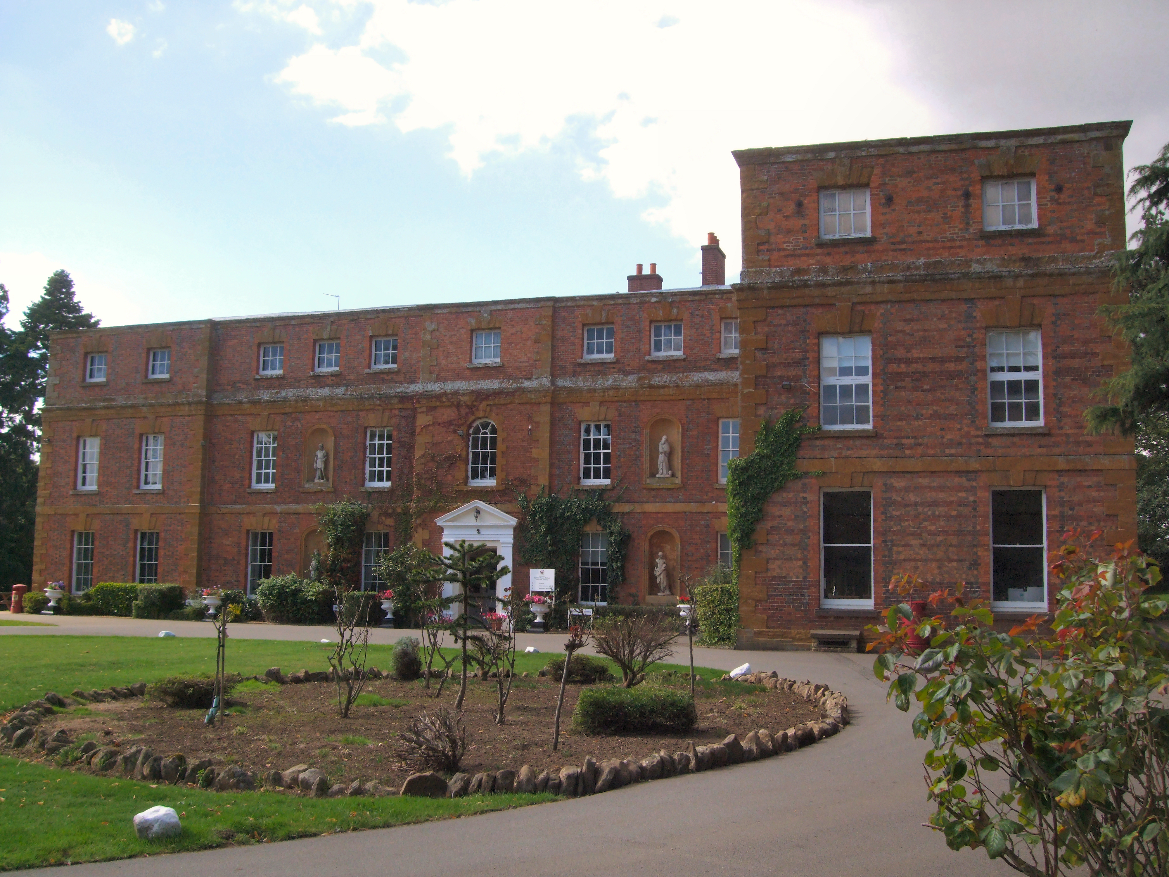 See English Wikipedia